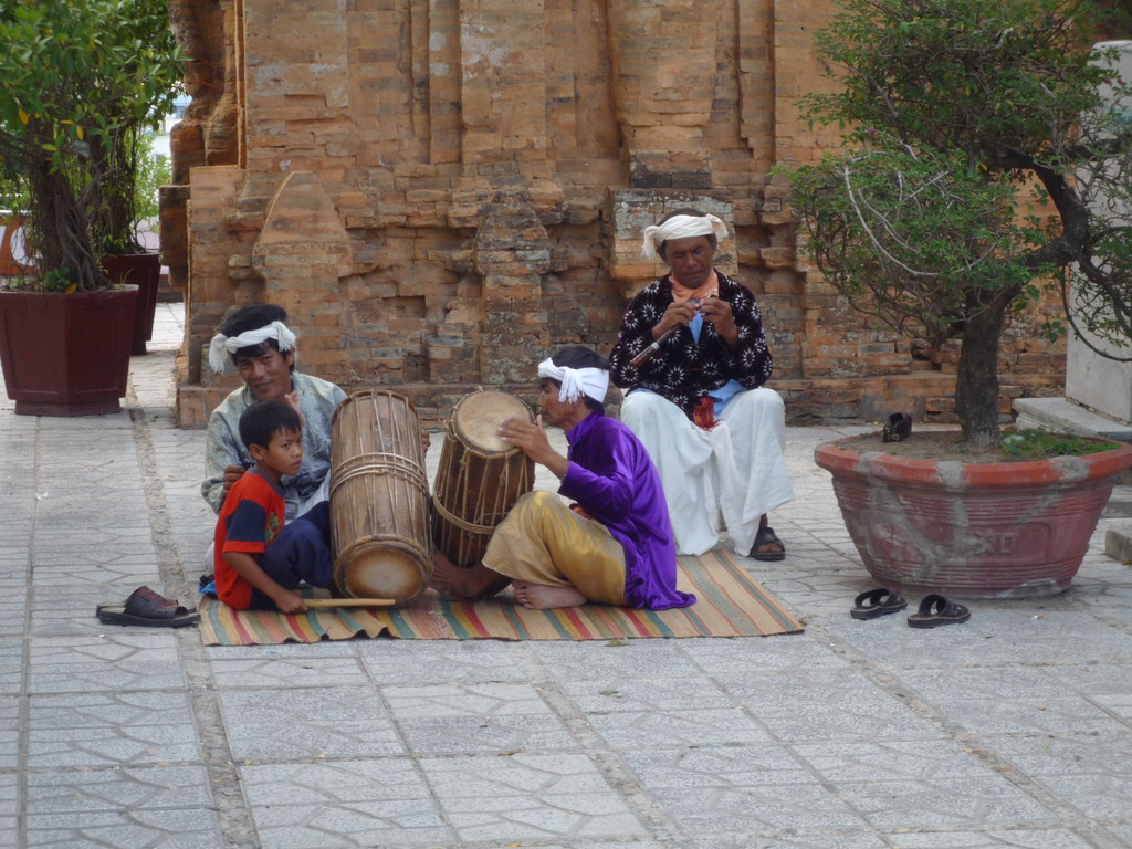 Music of the Cham people.